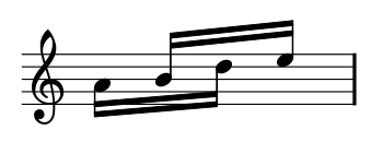 Basic Unit of third section of Piano Phase, by steve Reich